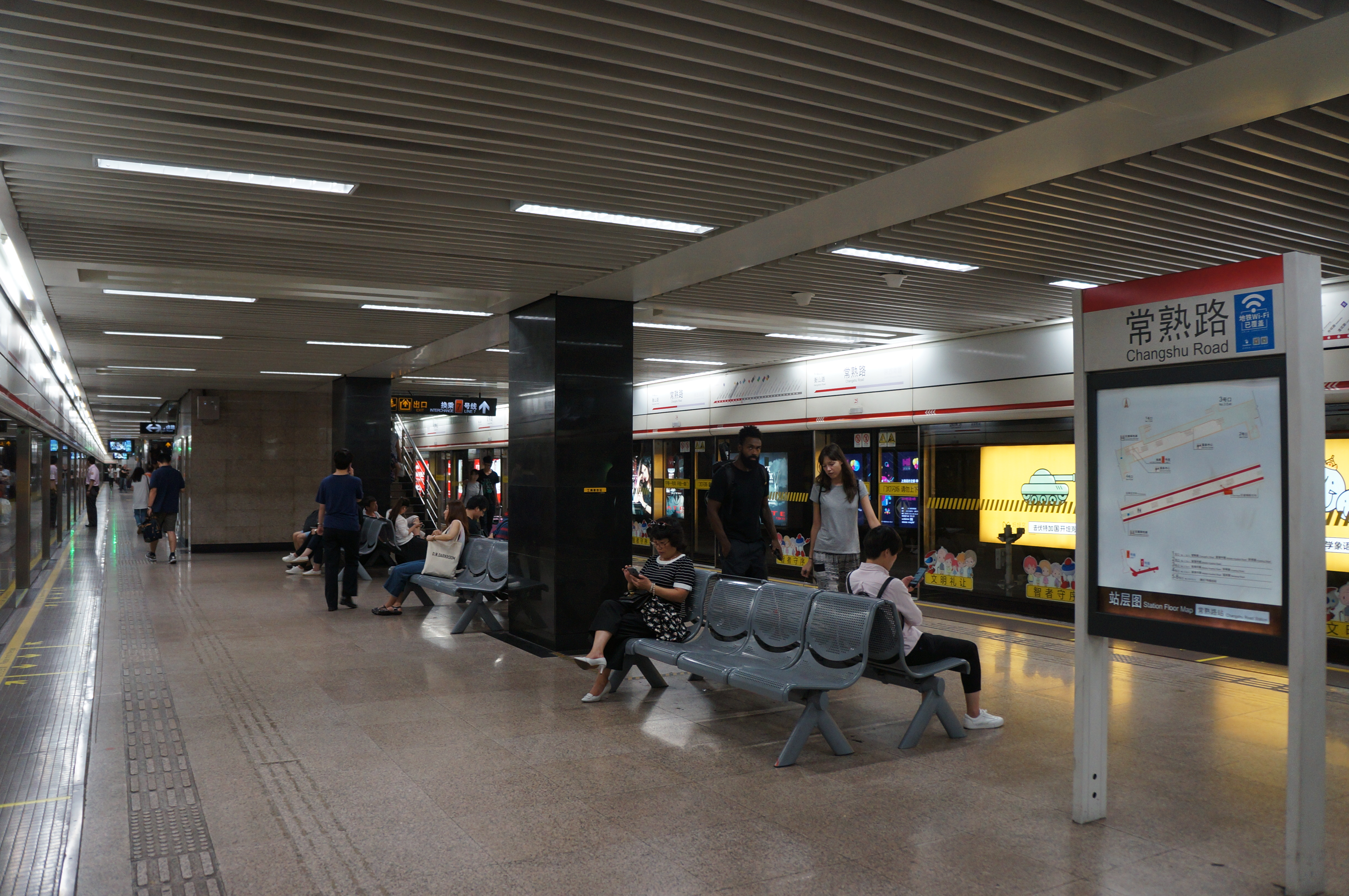 201609 Platform for Line1 at Changshu Road Station